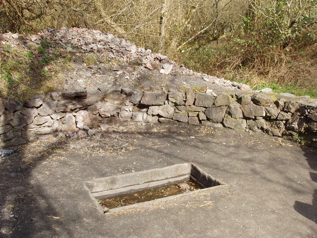 "Fulacht Fiadh" cooking pit, Irish National Heritage Park There are many remains of this type of pit in Ireland, over 4,000, and many theories about the way they were used. They were in use from 1500 B.C. up to medieval times. The most common theory is that meat - particularly venison - was placed in water in the pit, stones were heated in fires and thrown into the pit, and the meat cooked. Similar pits can be seen at the Tomb of the Eagles in the Orkneys. For more photos in the park, .